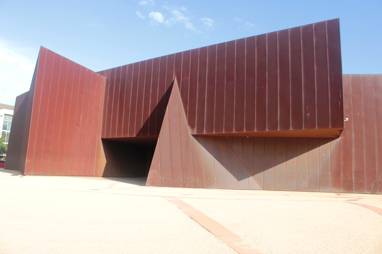 Australian Center of Contemporary Art (ACCA)- Side 2